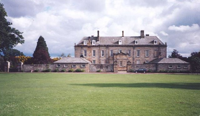 Wallington Hall.